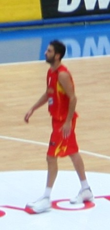 Spanish basketball player JC Navarro in the World Championship final 2006 in Japan